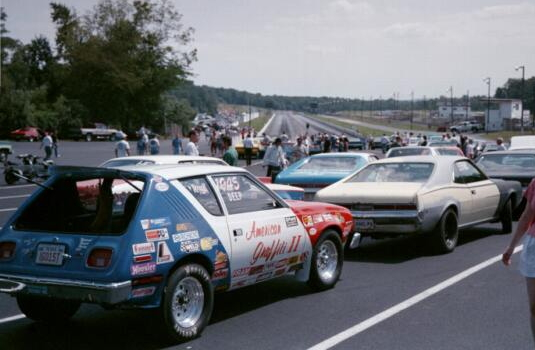 Annual Cecil AMC (American Motors Corporation) drag day, August 2001. Awesome Muscle Cars! This facility is located at: 1916 Theodore Road, Rising Sun, MD 21911.